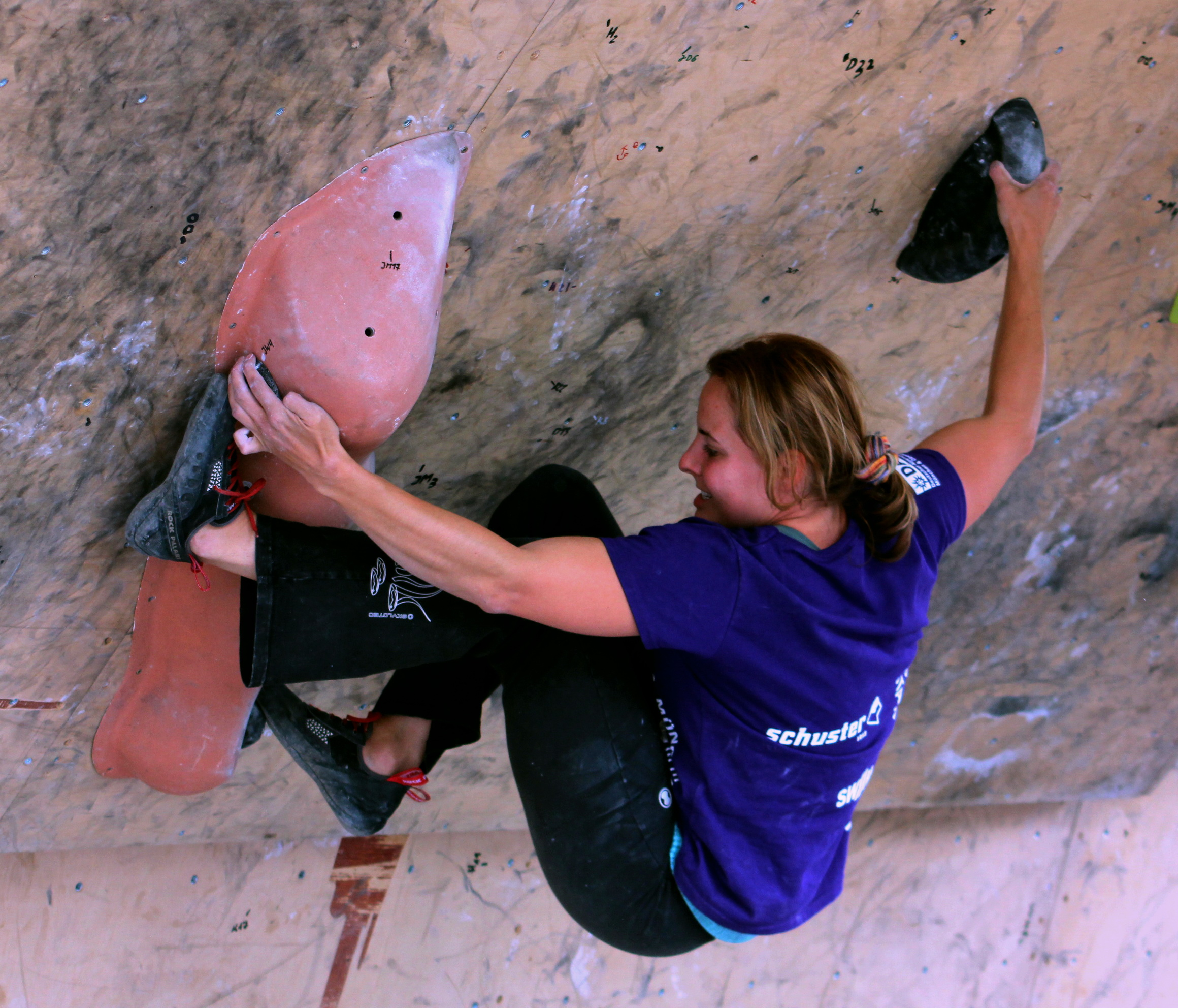 Bouldering in the competition. Host the tenth Munich City Championship in climbing in the climbing center in Munich.